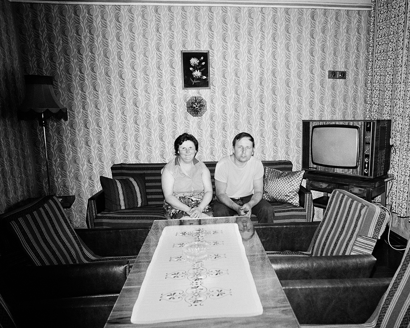 Zofia Rydet, "Sociological Record 1978-1990"